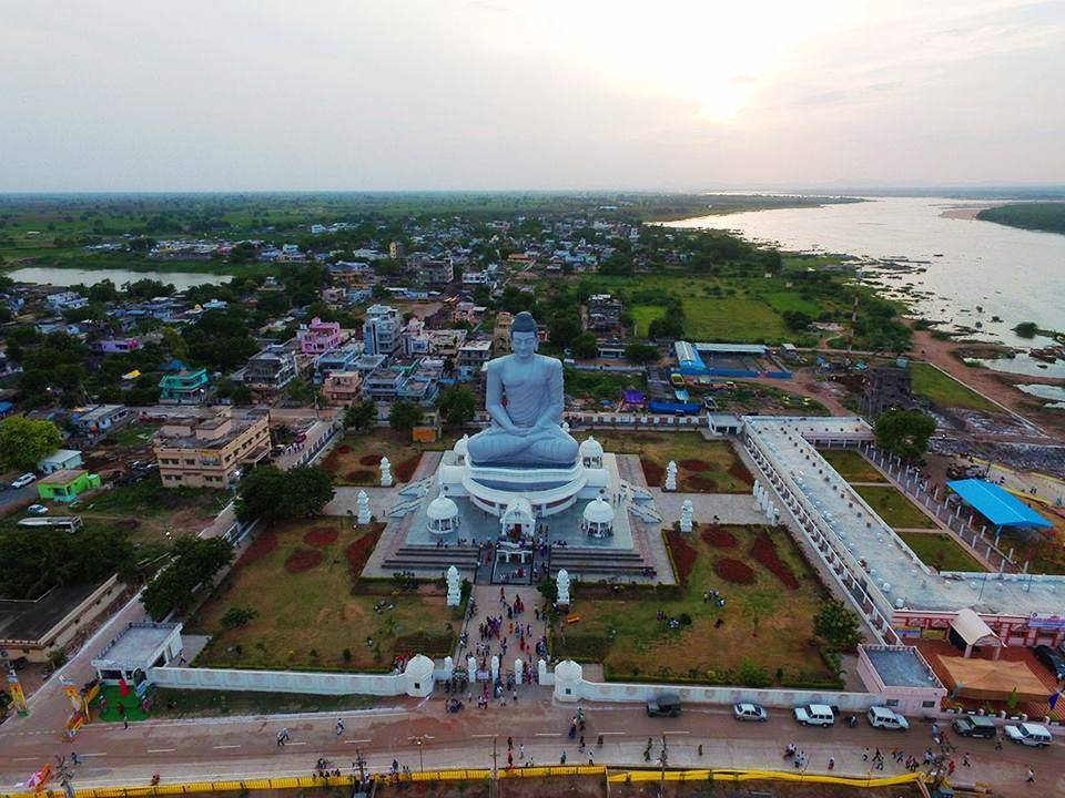 Amaravati city with the Dhyana Buddha statue.